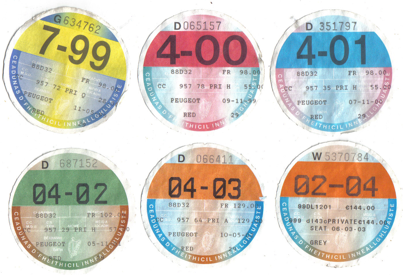 Motor tax discs, required in the Republic of Ireland to show payment of motor vehicle tax.